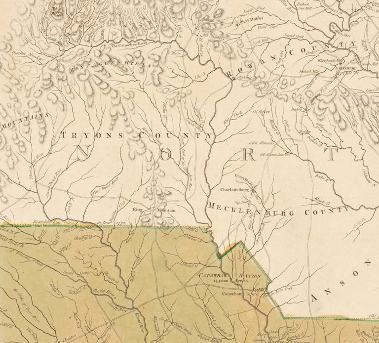 Print. Map shows North and South Carolina, and part of Georgia. Relief shown by hachures, depth shown by soundings. Depicts towns and villages, mills, roads, courthouses, Quaker meeting houses, and churches. Native American tribes shown include the Meherrin and Tuscarora in northeastern North Carolina, the Catawba south of Mecklenburg County, and the Cherokee in the far western part of the state. Insets show "The Harbour of Port Royal" and "The Bar and Harbour of Charlestown."